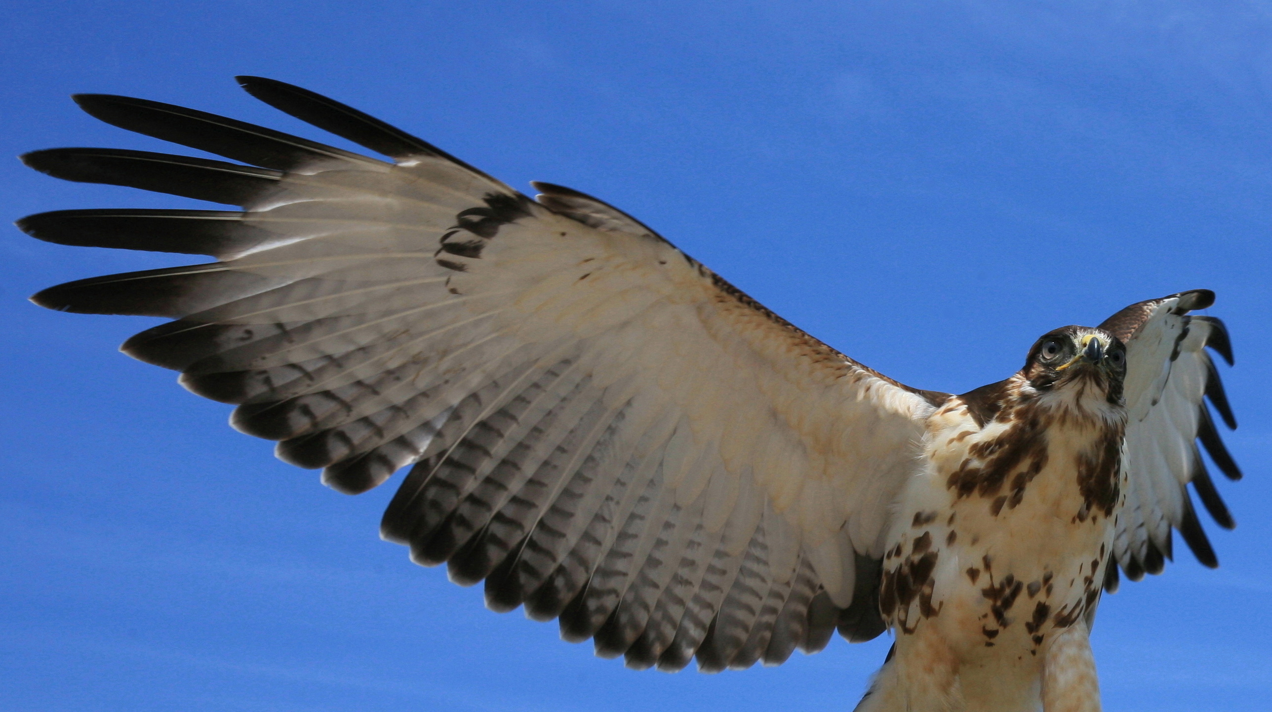 Red-tailed Hawk Buteo jamaicensis, captive bird, Bacara, Santa Barbara, California. Also shown in this picture.